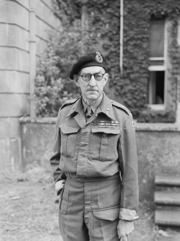 Major General Sir Percy Cleghorn Stanley Hobart commander of 79th Armoured Division, who was made responsible in March 1943 for the development of specialised armoured vehicles, known as 'Hobart's Funnies', to spearhead the assault phase of the invasion